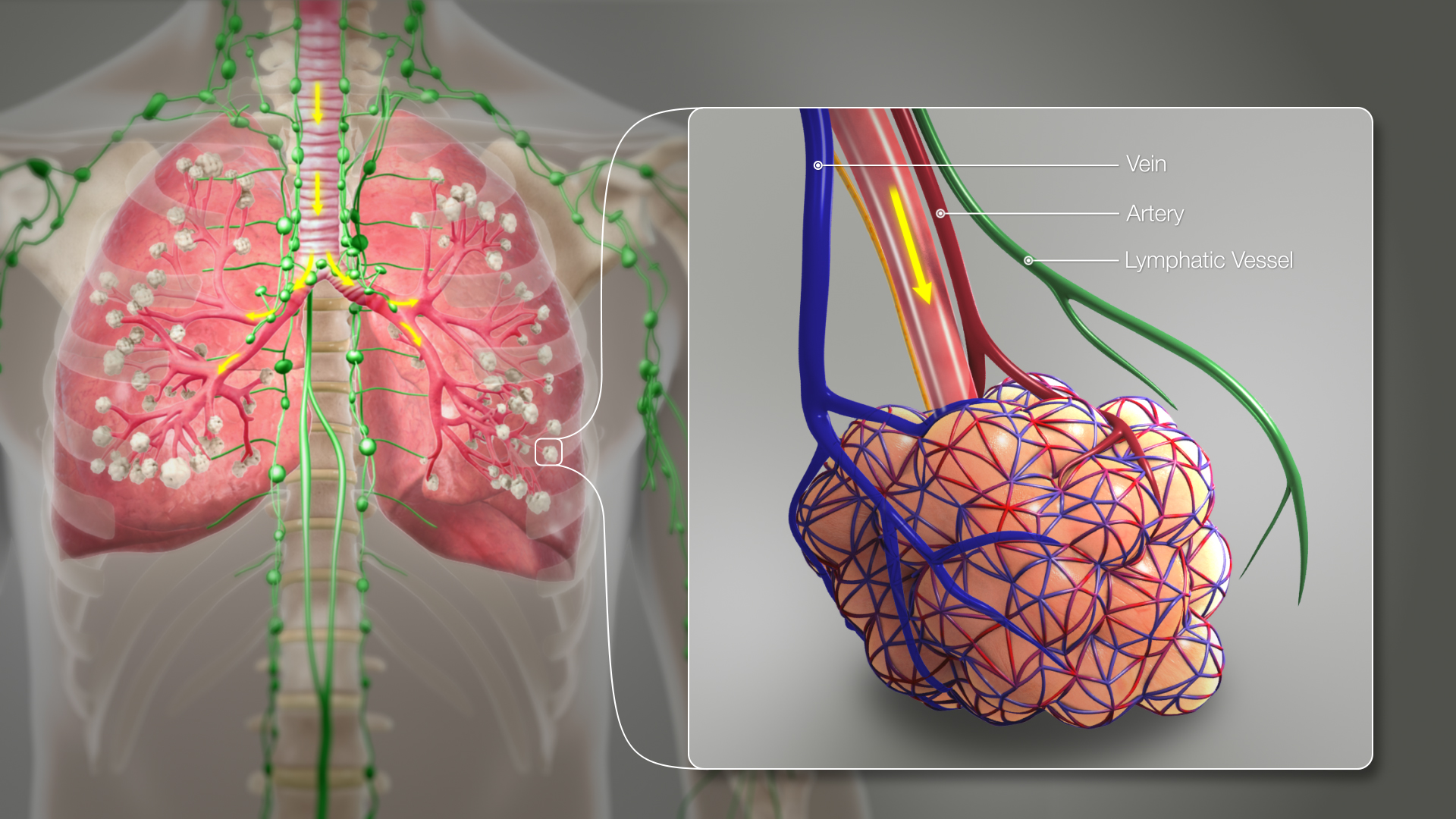 A 3D Medical illustration showing different terminating ends of Bronchial airways connected to alveoili, lung parenchyma & lymphatic vessels.